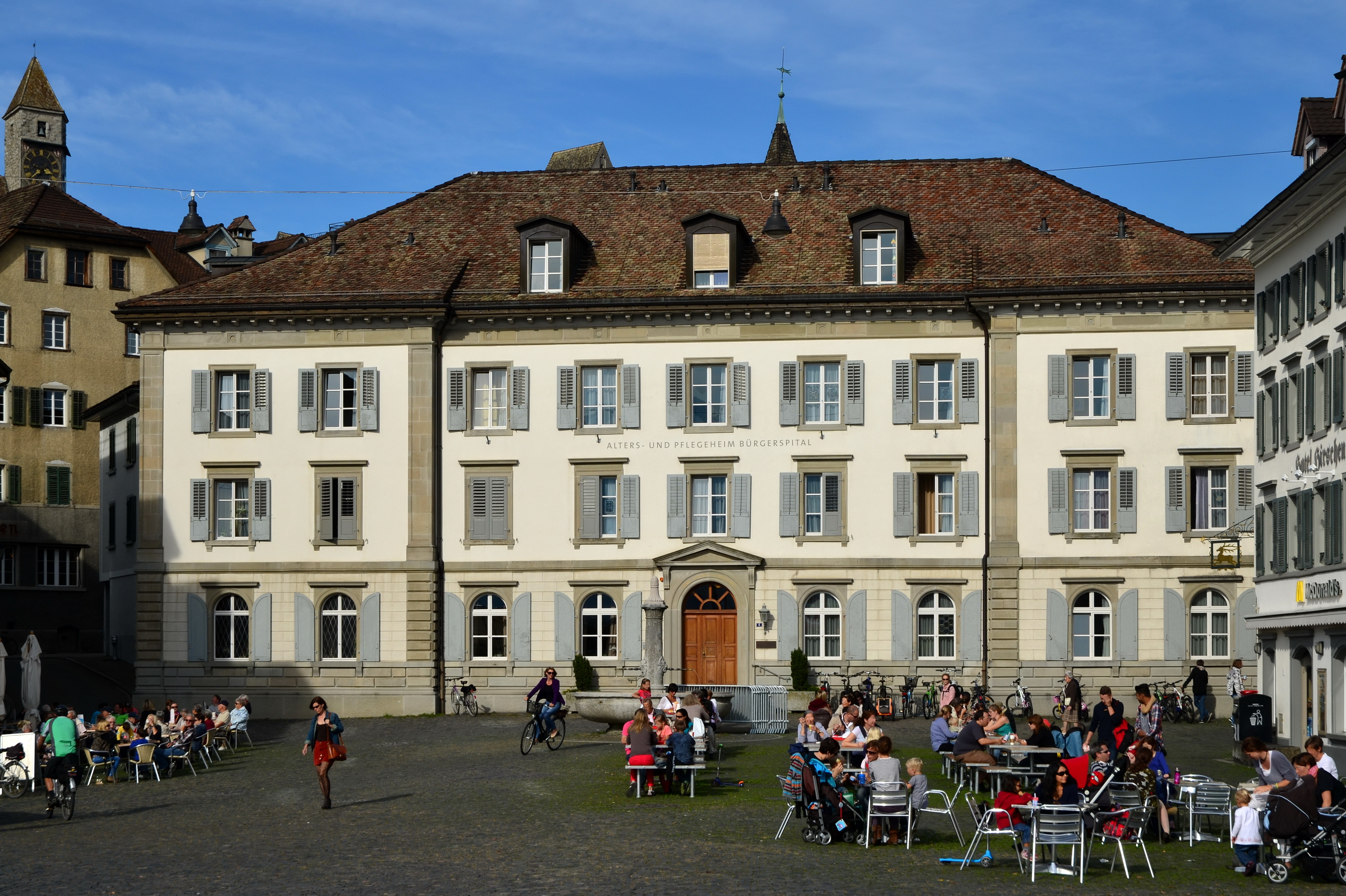 The former Heiliggeist-Spital (1845, first mentioned in the 13th century A.D.) at Fischmarktplatz in Rapperswil (Switzerland)